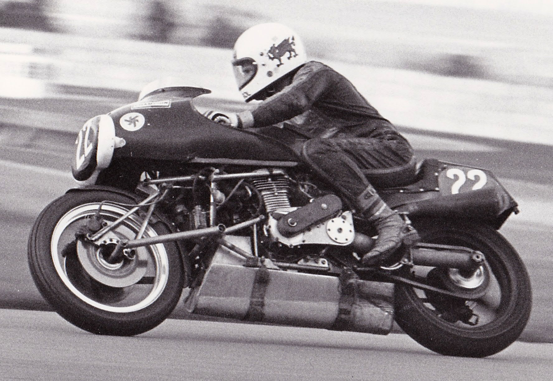 Mead and Tomkinson Kawasaki Z1000-engined Endurance racer nicknamed 'Nessie' campaigned by Arthur Moloney and Roger Nicholls at a World Endurance Championship event at Donington Park in September 1981